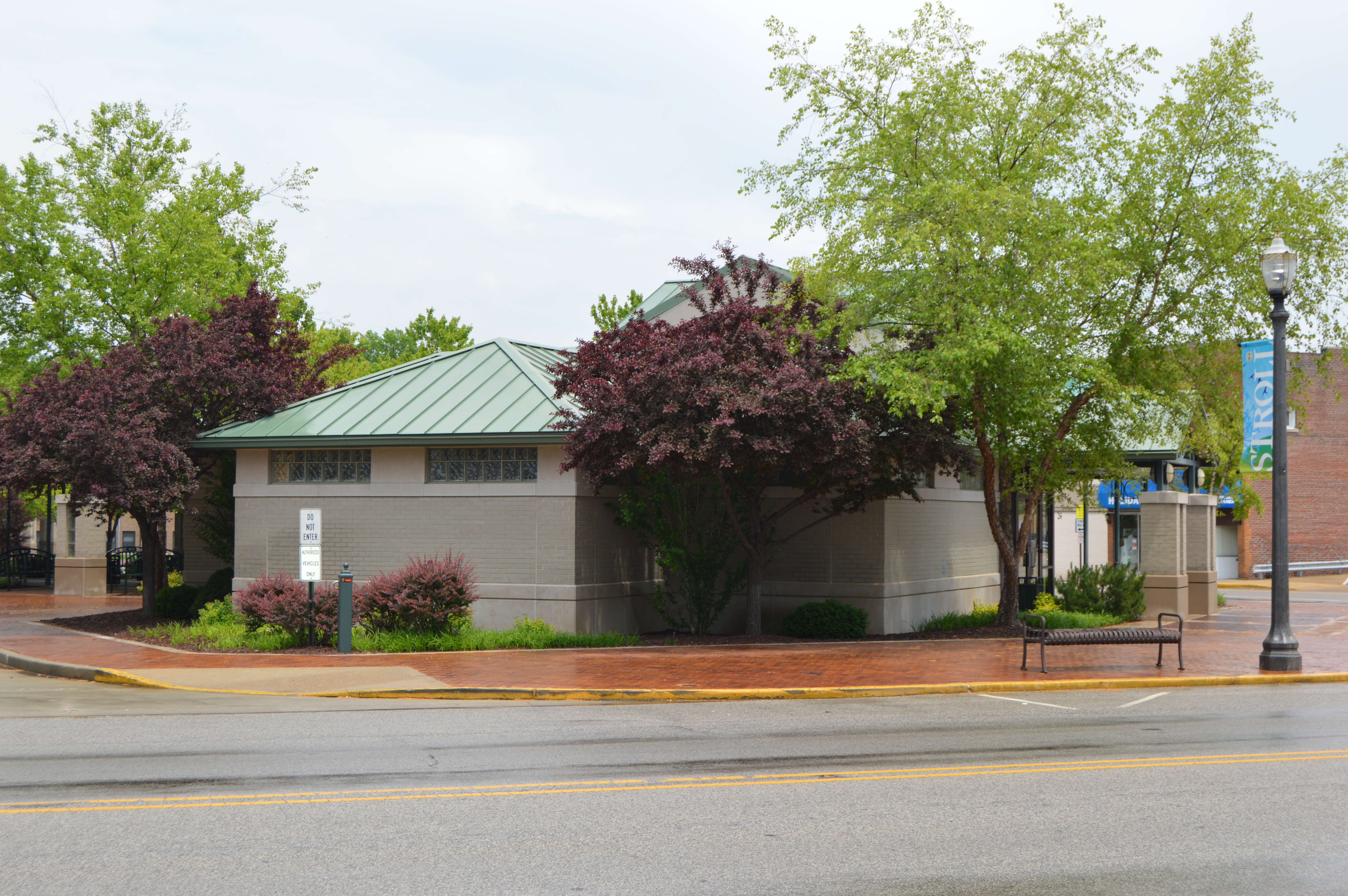 A bus station on the eastern side of the 200 block of N. Main Street (Illinois Routes 143/159) in downtown Edwardsville, Illinois, United States. This was formerly the site of the Madison County Sheriff's House and Jail, which were listed on the National Register of Historic Places in 1980; although destroyed, they have not yet been un-designated.